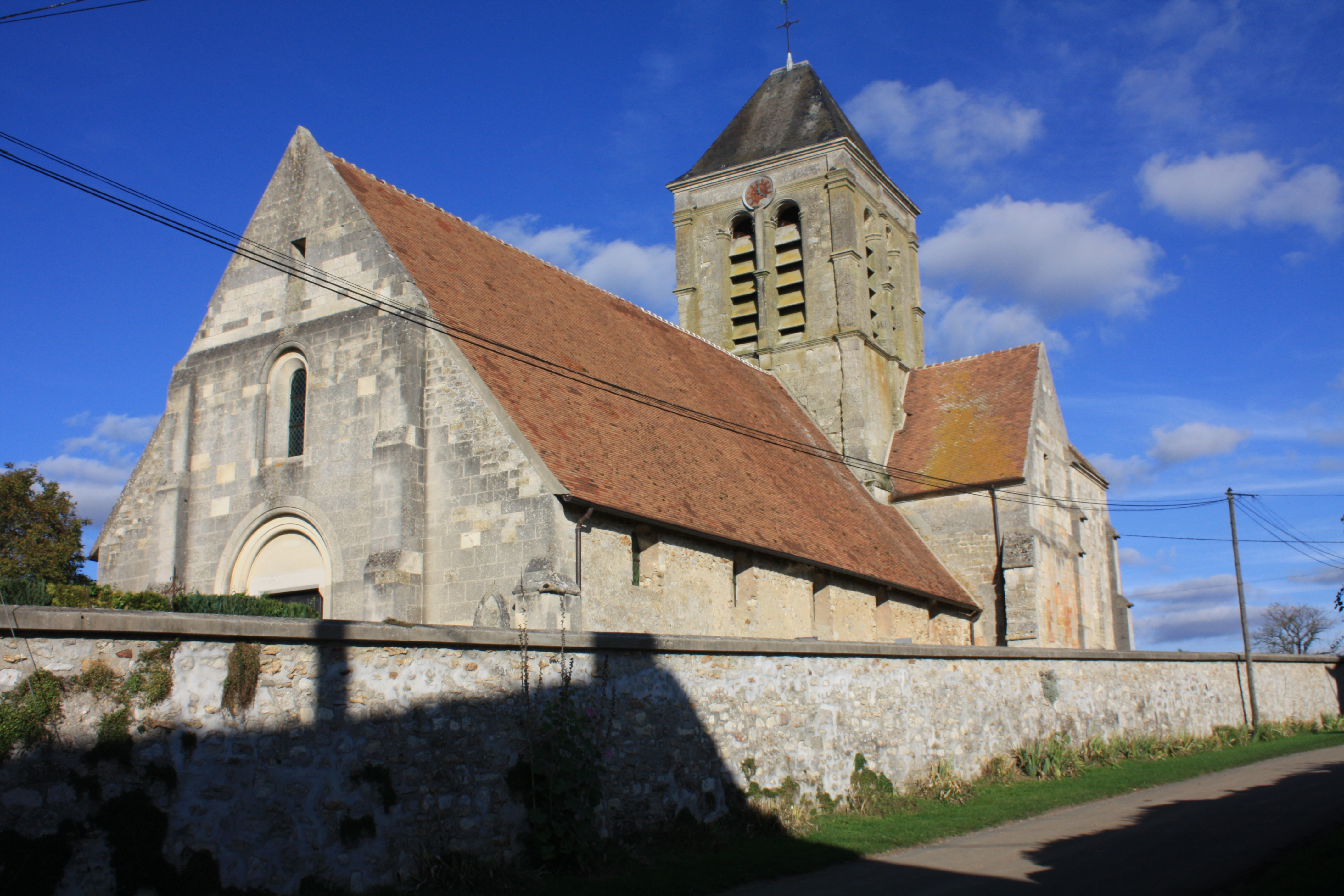 Église Saint-Brice de Sergy